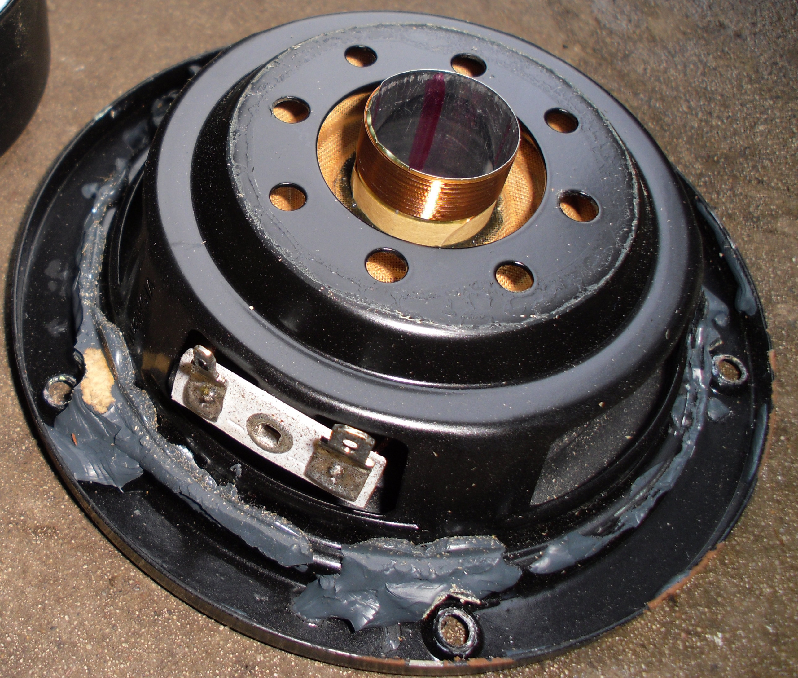 Voice coil of a Visaton W 100 S woofer